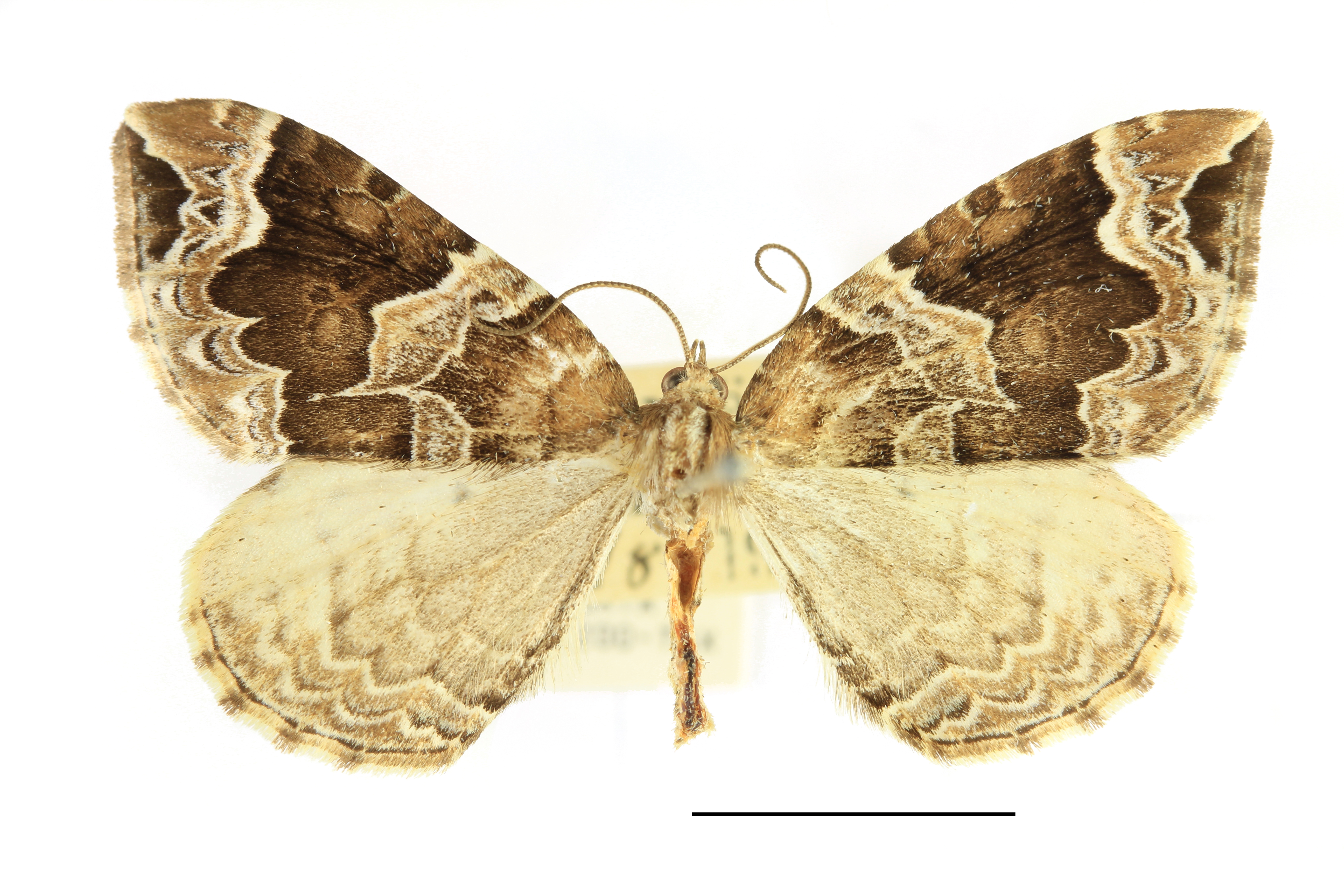 Eulithis prunata, insect collections SLU, Uppsala